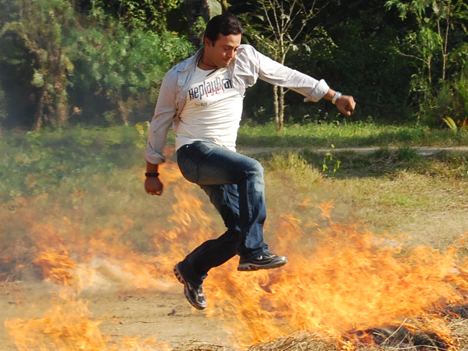 Riaz in shooting in the fire at 2008